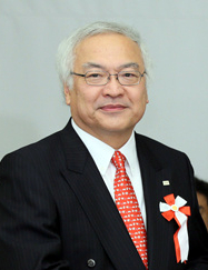 Norio Sasaki, Member of the Council on Economic and Fiscal Policy, Cabinet Office, handed the report to Shinzō Abe, Prime Minister, at the Prime Minister's Official Residence in Chiyoda Ward, Tōkyō Metropolis on December 12, 2013.